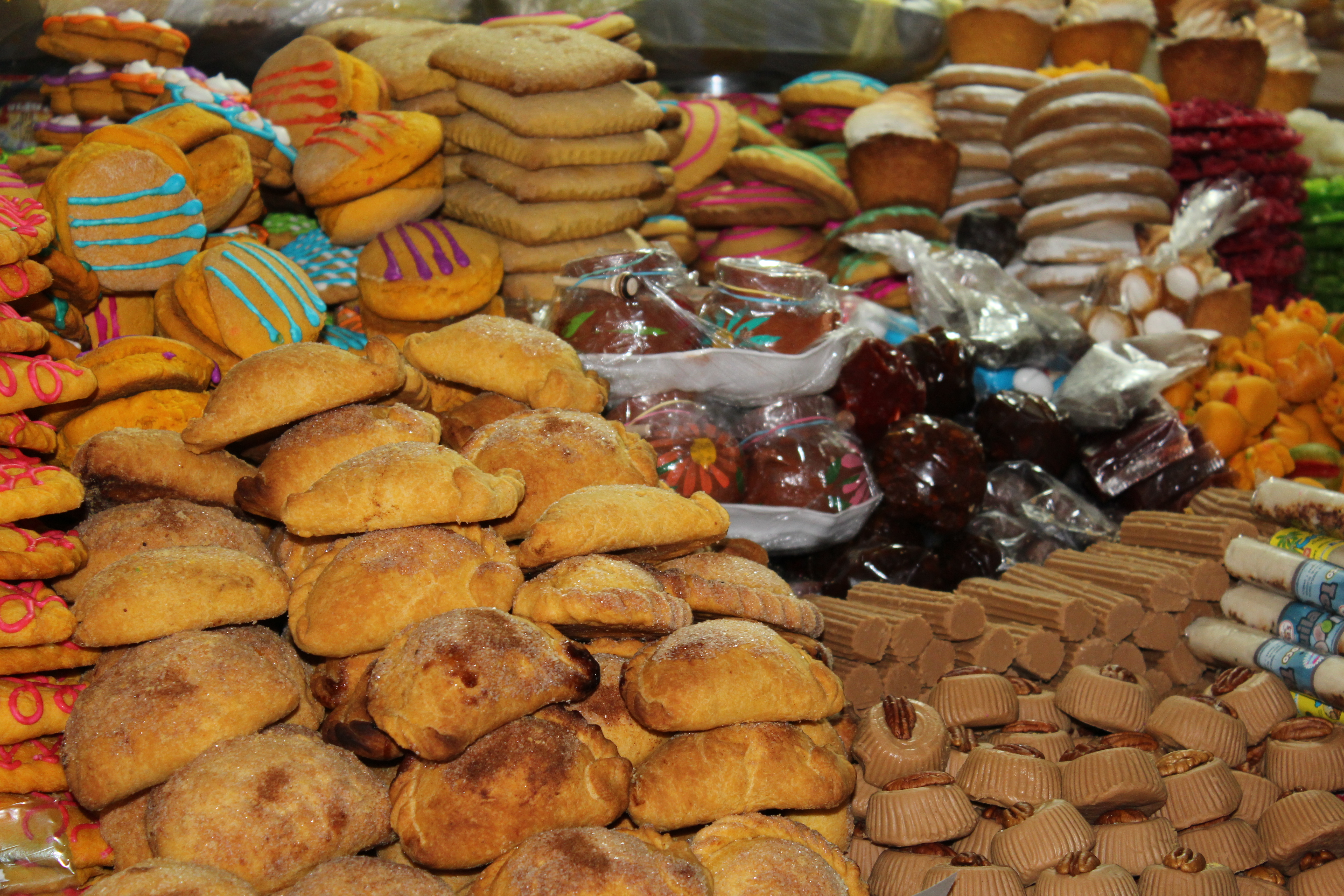 Traditional Candies of San Cristobal de las Casas in the Candies and Handicrafts Market